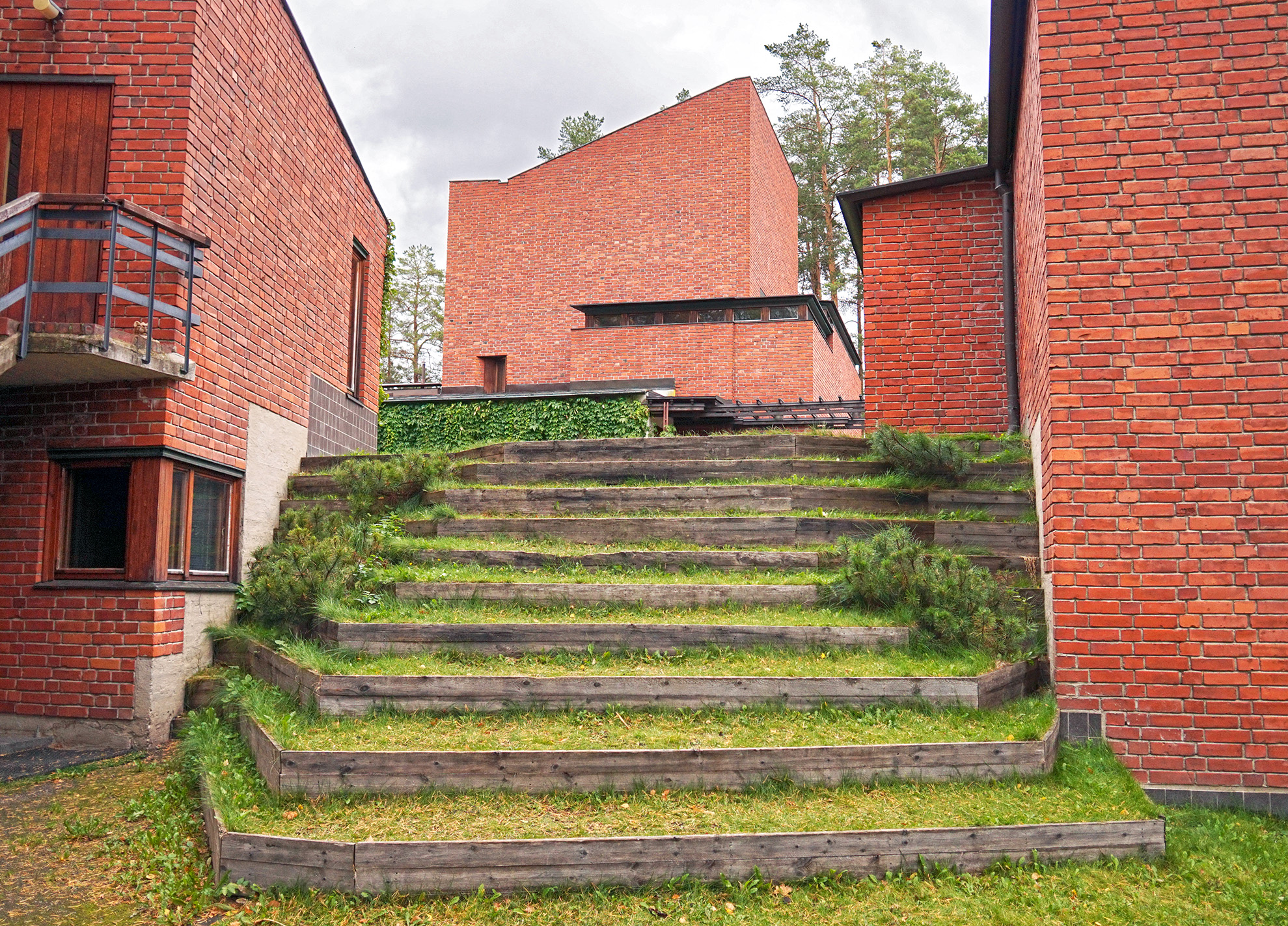 Säynätsalo Town Hall